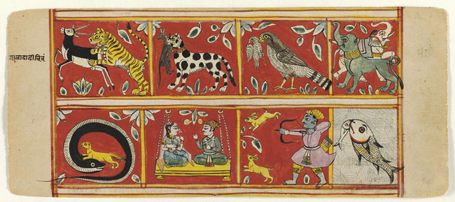 Indian and Himalayan Art Aspects of Violence (Himsa) Page from a manuscript of the Sangrahanisutra Made in Gujarat, India or Rajasthan, India 1663-64 Artist/maker unknown, India Opaque watercolor on paper 4 3/8 x 10 inches (11.1 x 25.4 cm) Currently not on view 1935-34-11(51,a) Purchased with the Francis T. S. Darley Fund, 1935 Label According to the philosophy of the Jain religion, animals that are violent to one another are reborn in hell as surely as men who practice cruelty. Each hell has a matching image. The upper left is the first hell for "unreasoning tigers," and the illustration shows a tiger attacking a black buck antelope. The adjacent scenes show a domesticated cheetah carrying a rodent, a bird of prey (perhaps a Eurasian sparrow hawk) with a smaller bird in its beak, and a Gaja-Simha (mythical elephant-lion) with its elephant prey. On the far left of the lower row, a mongoose kills a snake. At the far right, a big fish eats a little one, a scene described as "fish doing bloody deeds." Just to its left, a man shoots rabbits, a scene described as "human beings doing bloody deeds." The sixth hell (second from the left) shows a seated couple and implies the violence of lovemaking.